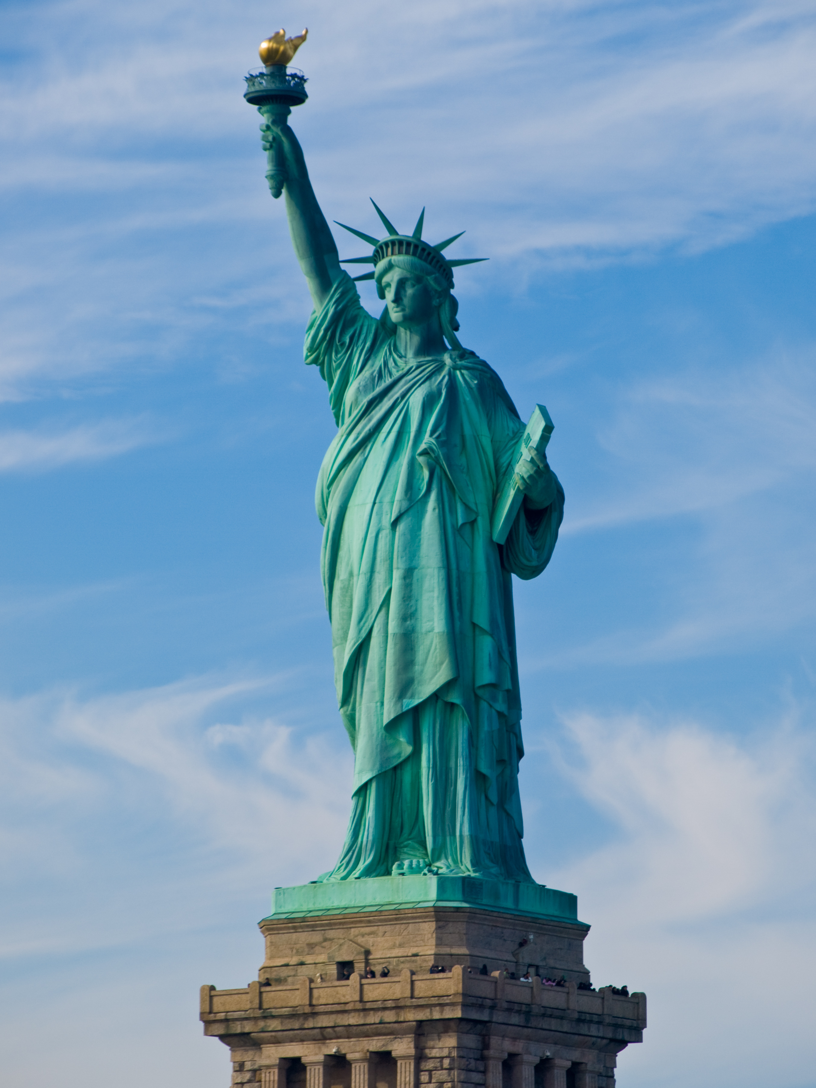 Statue of Liberty seen from the Circle Line ferry, Manhattan, New York